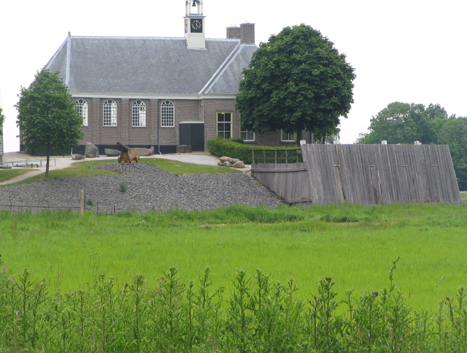 Schokland, Flevoland, the Netherlands